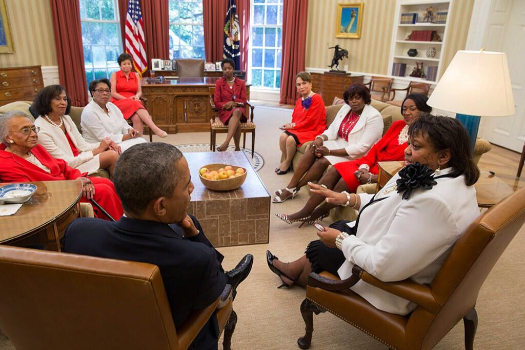 Delta Sigma Theta Leaders meet with President Obama. Tweet from Valerie Jarrett: ".@DSTinc1913 Congrats on 100 years of strong women doing remarkable things for our country #dst100". See also .